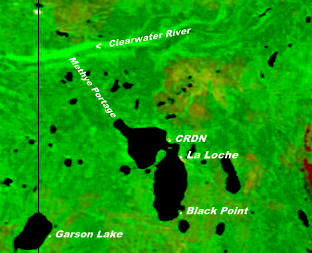 Portion of Nasa satellite image showing Lac La Loche in Saskatchewan Canada (Captions have been added by Kayoty)